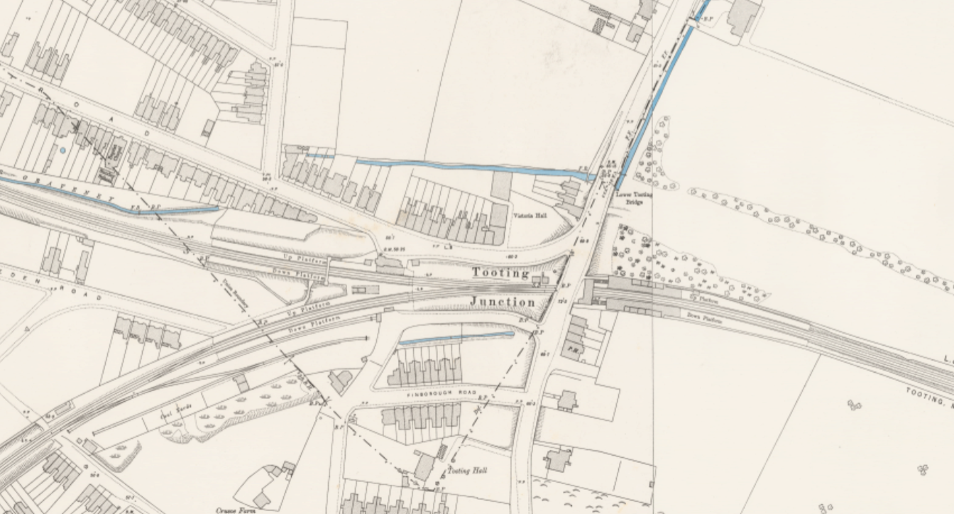 Tooting Junction station on an Ordnance Survey Map. The station to the right of the main road (London Road) is the replacement station opened in 1894 (now Tooting station). The station to the left with platforms on both branches is the original station, closed when the new station opened.